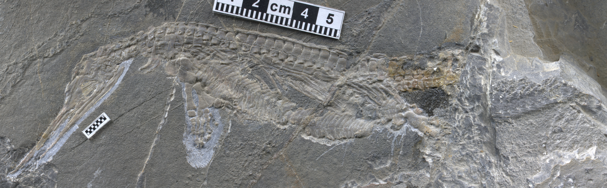 The holotype of Eohupehsuchus brevicollis, WGSC V26003. Scales are in centimeters.